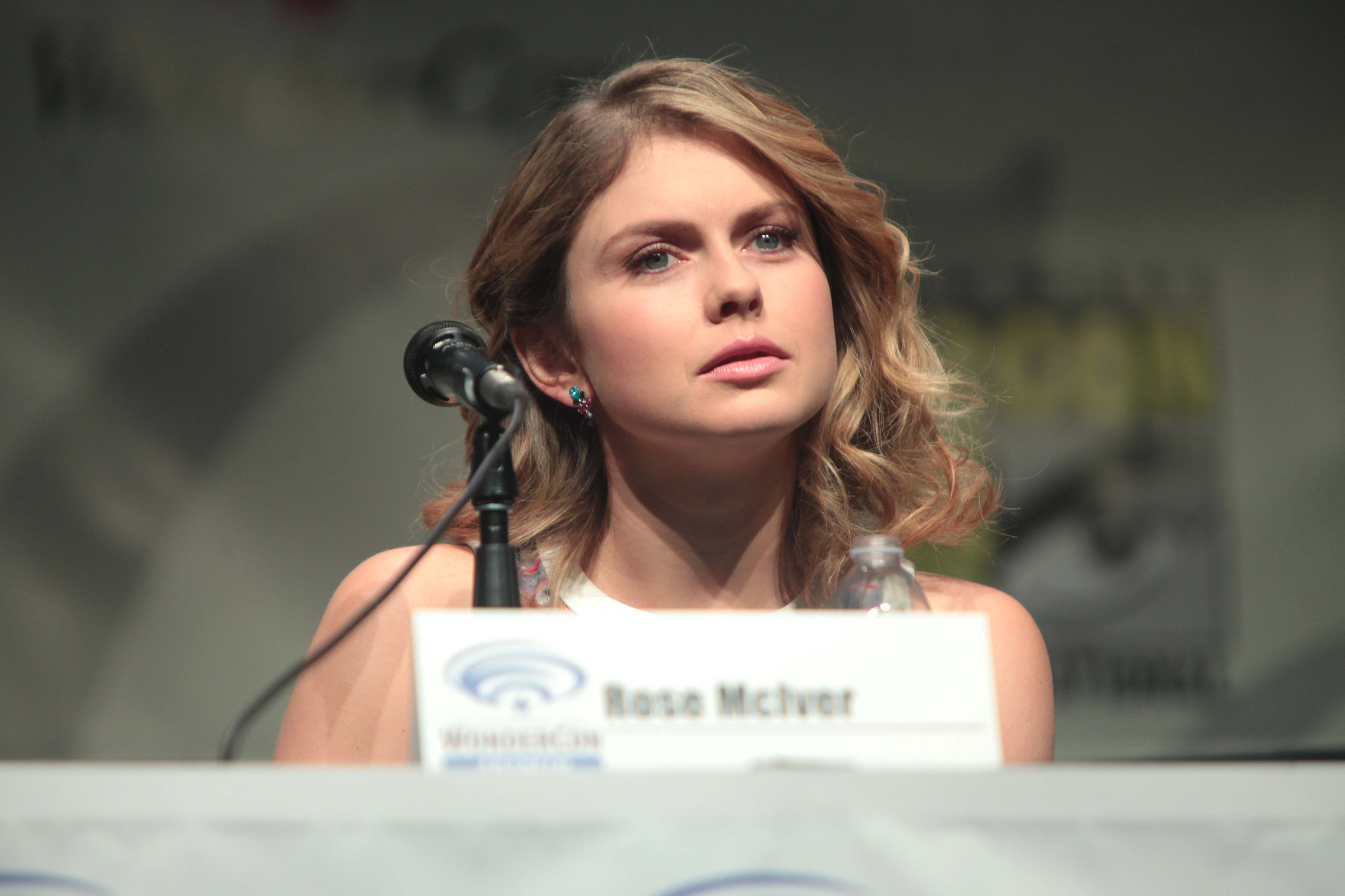 Rose McIver speaking at the 2015 Wondercon, for "iZombie", at the Anaheim Convention Center in Anaheim, California.